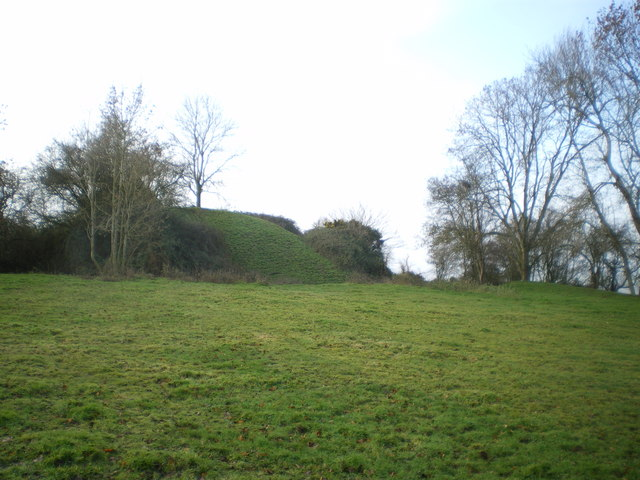 Hen Domen castle mound Hen Domen is the remains of a Norman 'earth and timber' castle construction, built around 1070. It existed primarily to defend the strategic ford across the Severn at Rhydwhyman, but was eventually replaced and superseded by the castle on the hill above Montgomery.